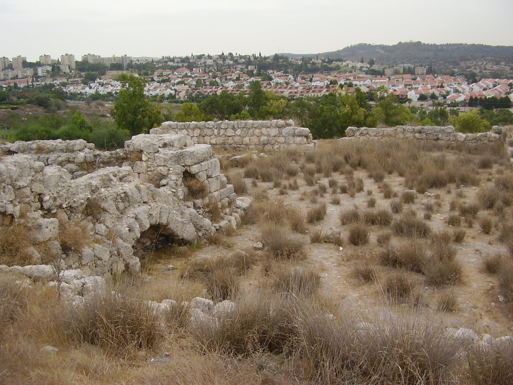 old bet shemesh